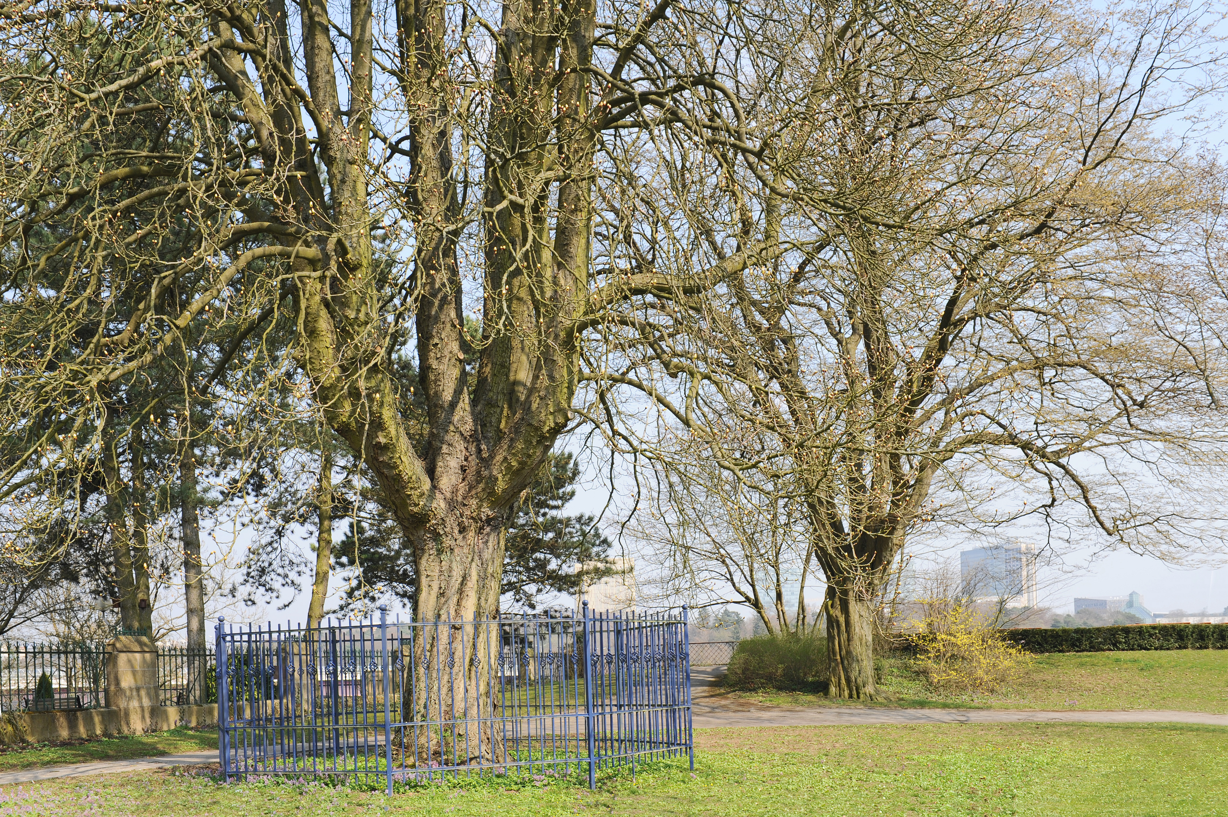 Remarkable chessnut tree in Pescatore Park in Luxembourg city, calles arbre du prince Jean